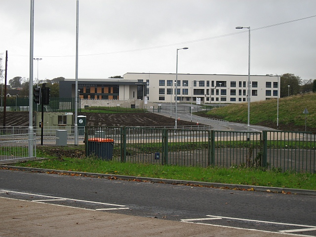 New Bearsden Academy. The New Bearsden Academy. It opened this summer (2009). The old school looks a little less splendid 1607355